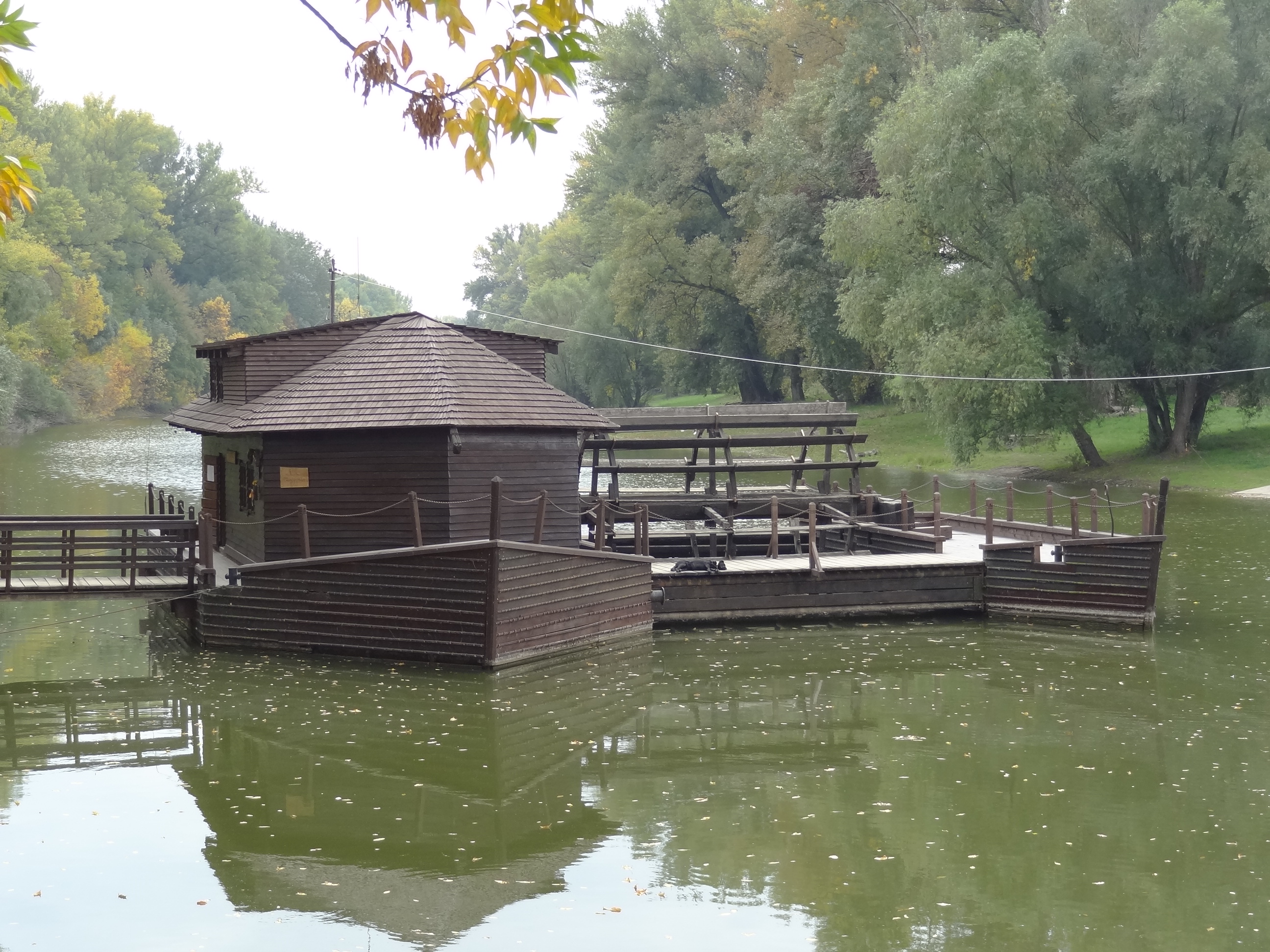 Shipmill in Kolárovo, Slovakia